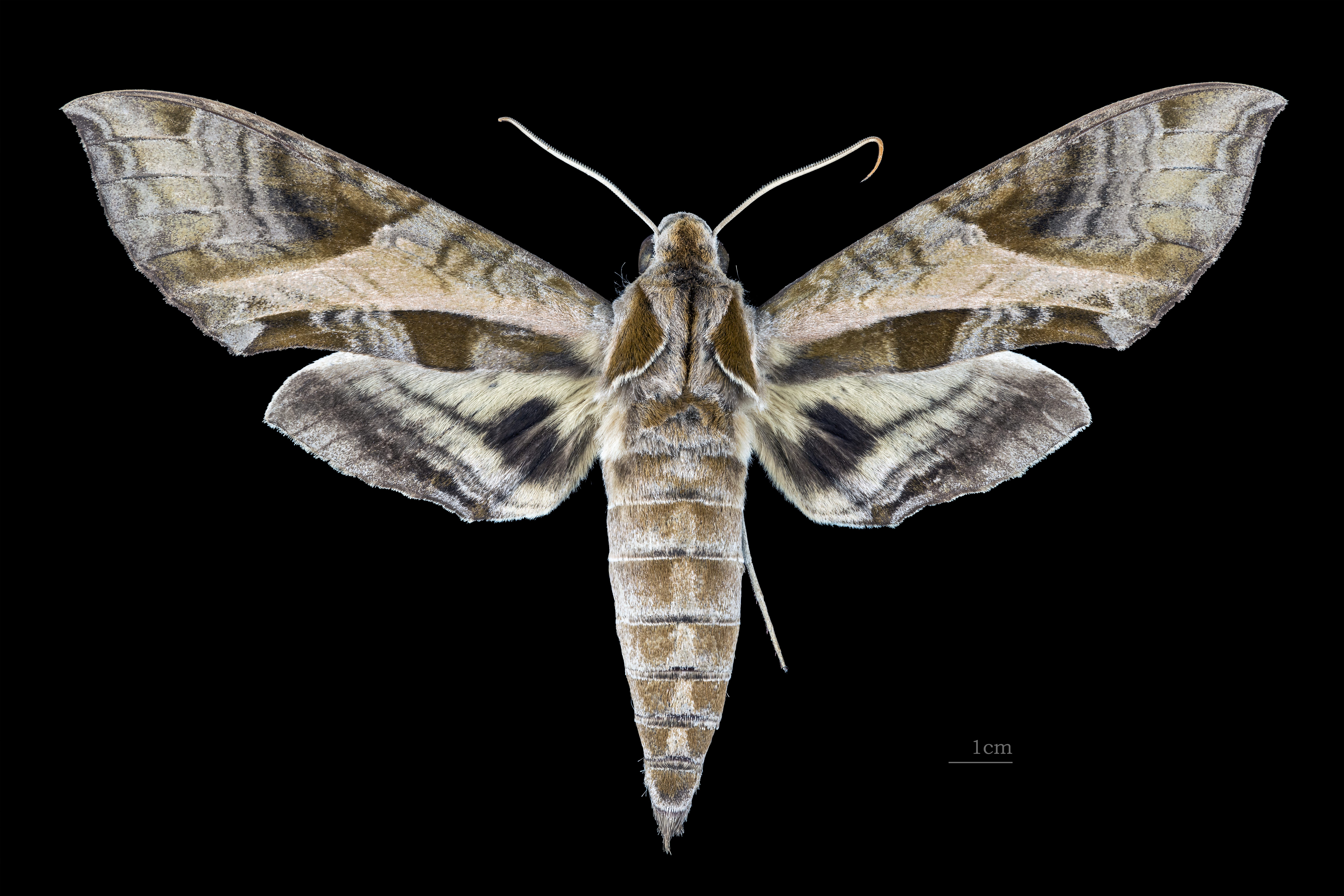 Eumorpha megaeacus - Dorsal side Collection of the Mathematician Laurent Schwartz